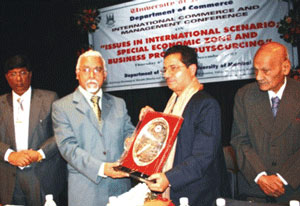 Dr. K. M. Vasudevan Pillai, Visionary Founder, Chairman and CEO of Mahatm Education Society was felicitated on 6th December, 2007 by the then Dr. Vijay Khole, Vice Chancellor of University of Mumbai for expanding the scope of education and making a difference at National and International Level.